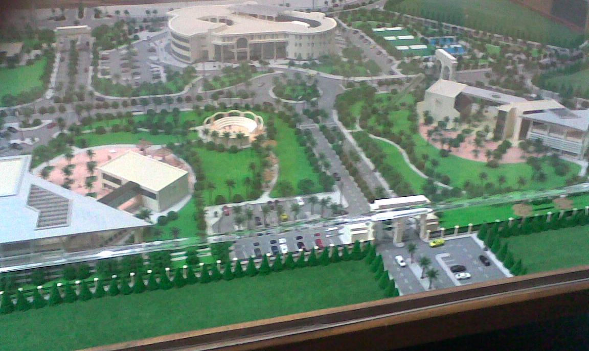 1 of the UFE buildings